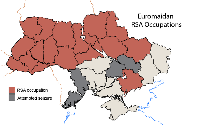 A map depicting the seizure of regional state administration (RSA) buildings by Euromaidan protesters in early 2014, by oblast.